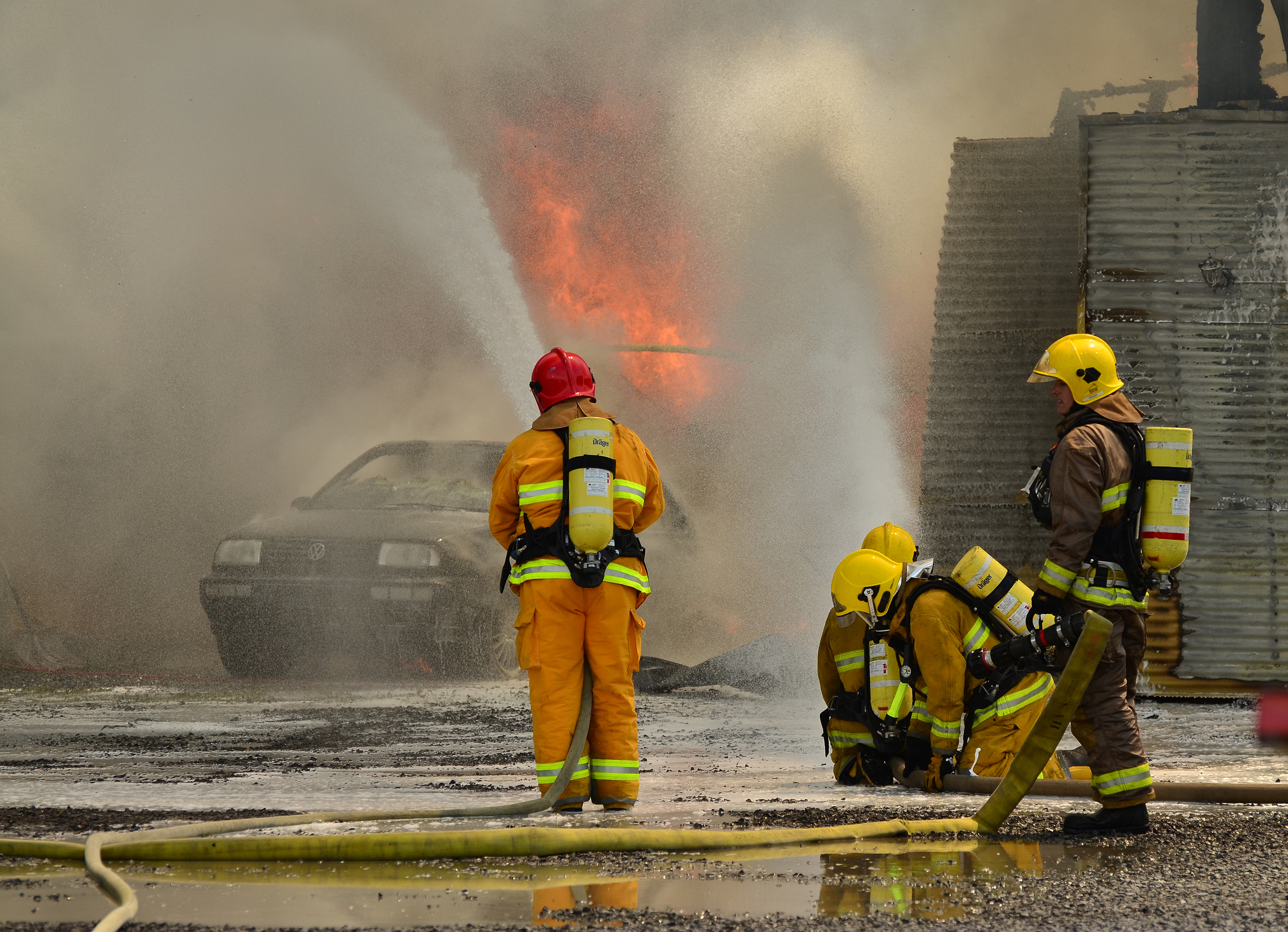 Firefighters in action in Château-Richer, Canada.